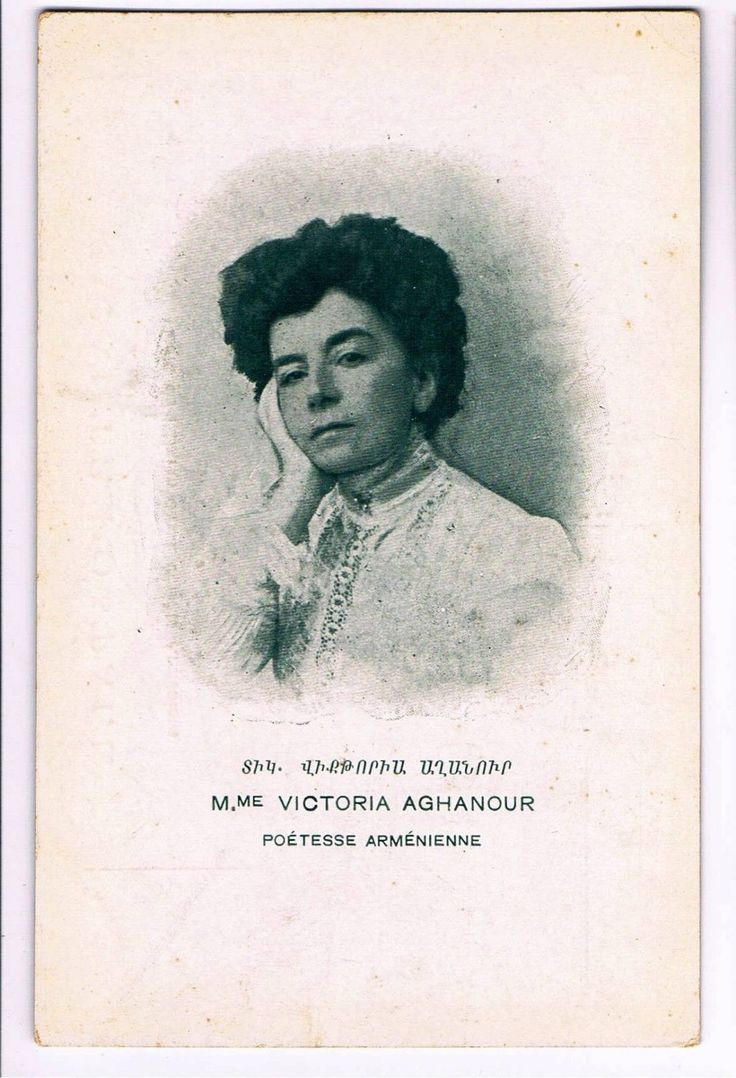 Armenian Poetess Victoria Aghanour